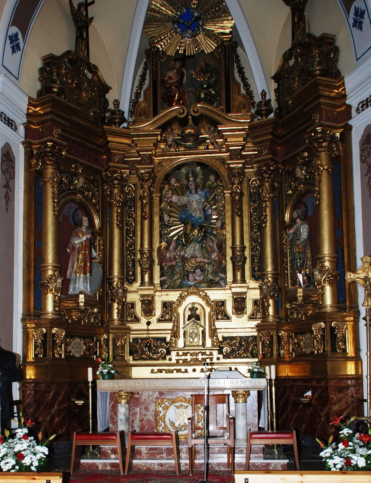 Retaule de l'Església de Santa Maria de Salitja